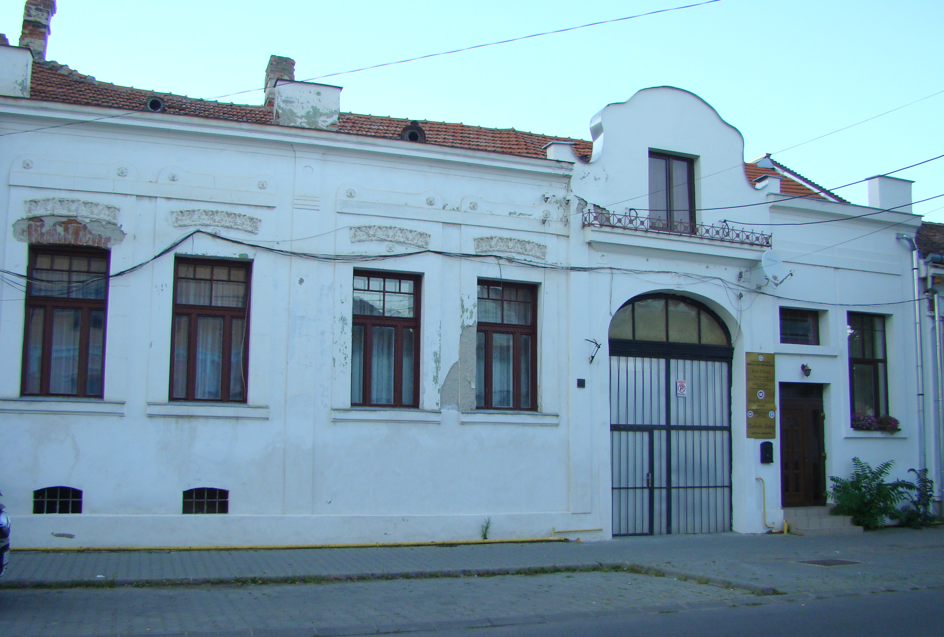 House, historic monument, Regina Maria street nr.3, Alba Iulia, Alba county, Romania